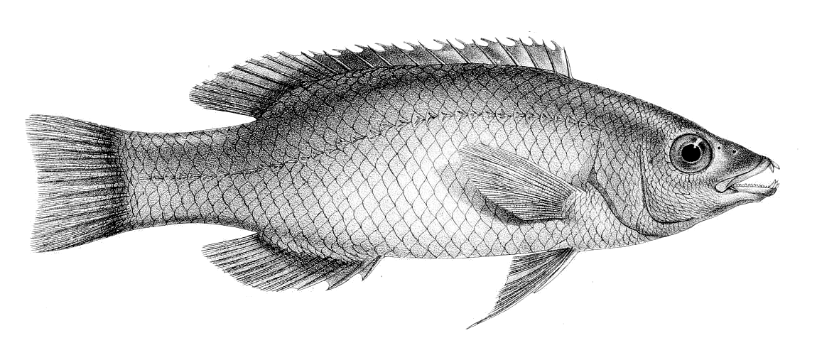 Cossyphus axillaris var. = Bodianus axillaris (Bennett, 1832)?